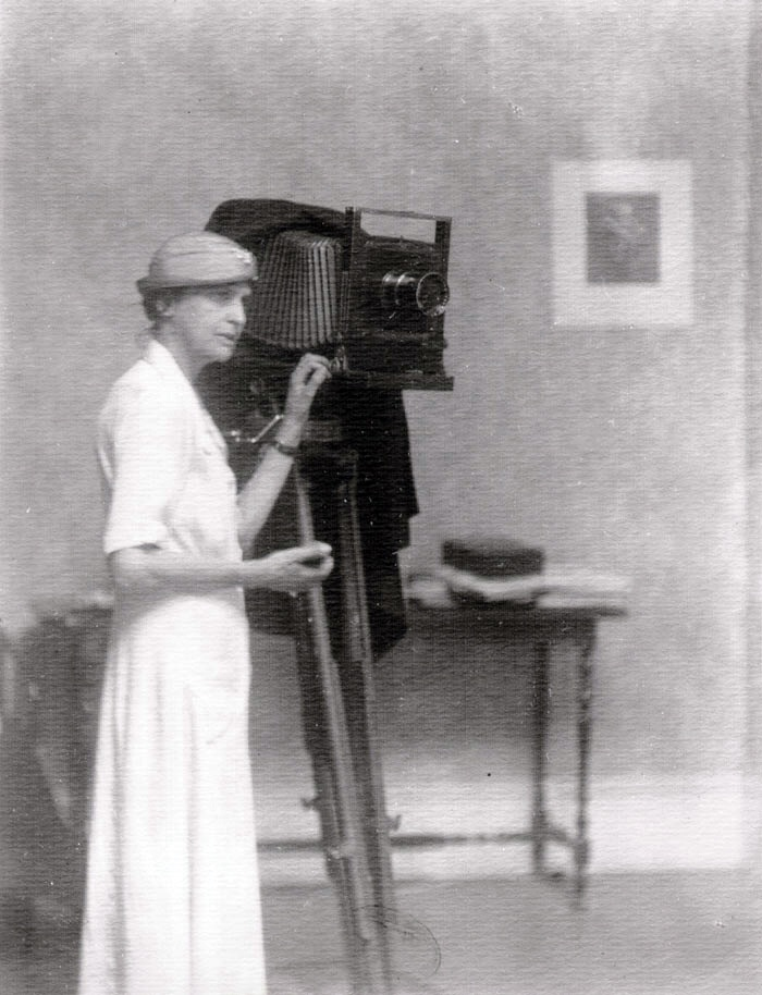 Selfportrait